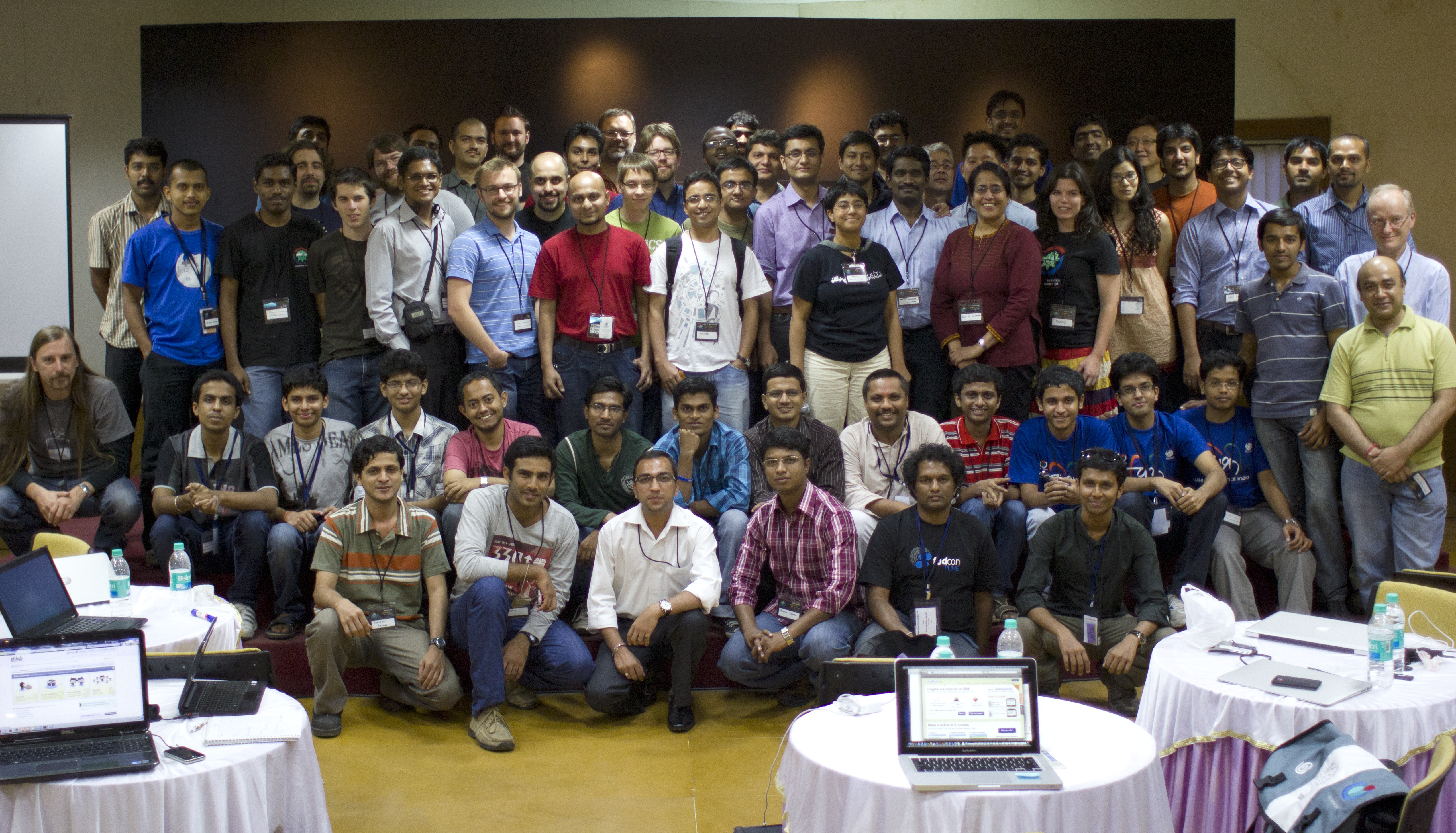 Hackathon Mumbai 2011 Groupshot